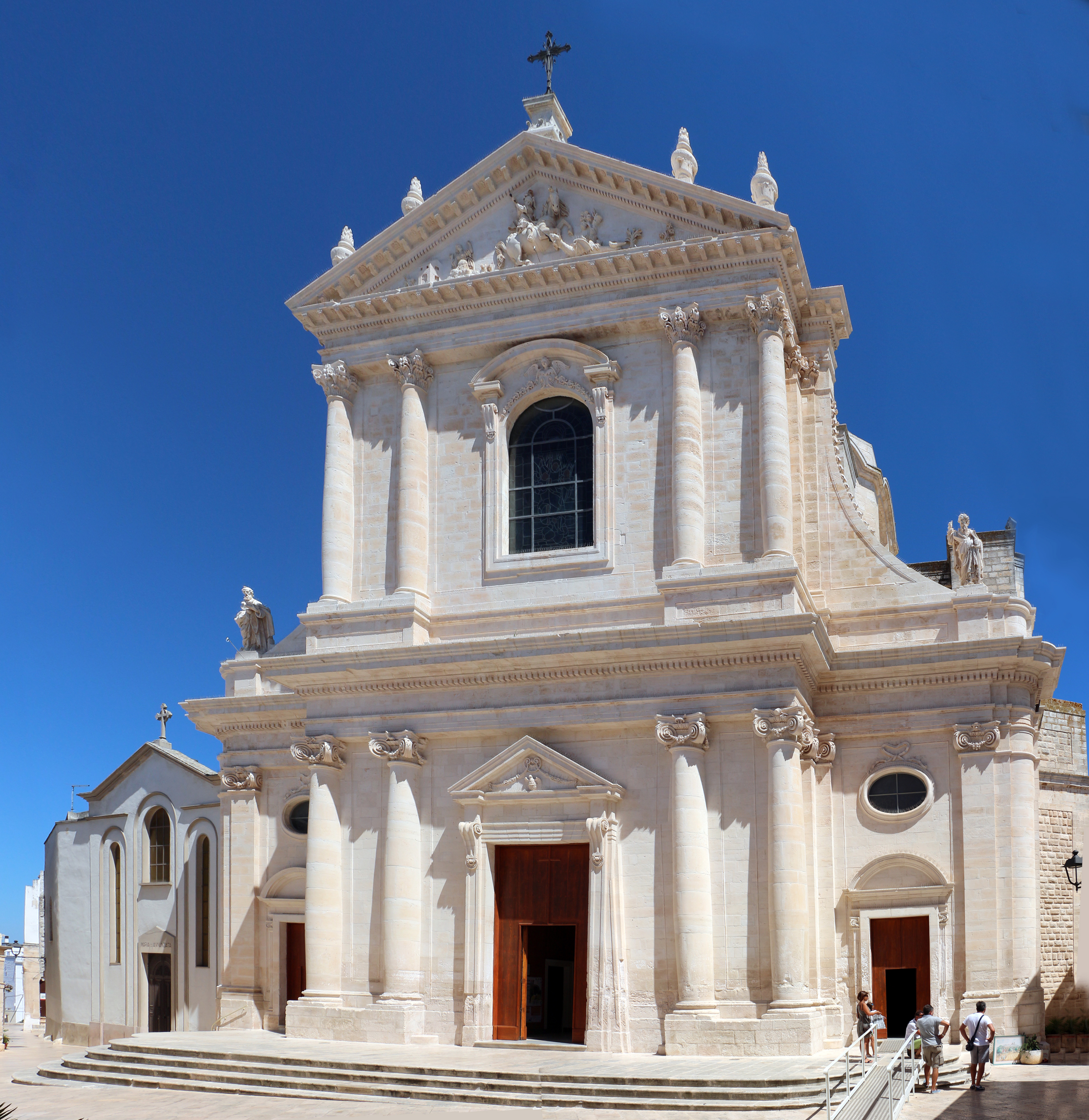 Locorotondo